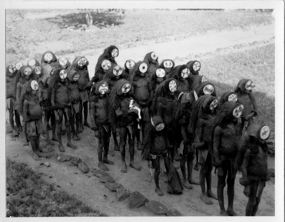 Boys returning from their initiation in the Poro, Panguma (Sierra Leone), 1936